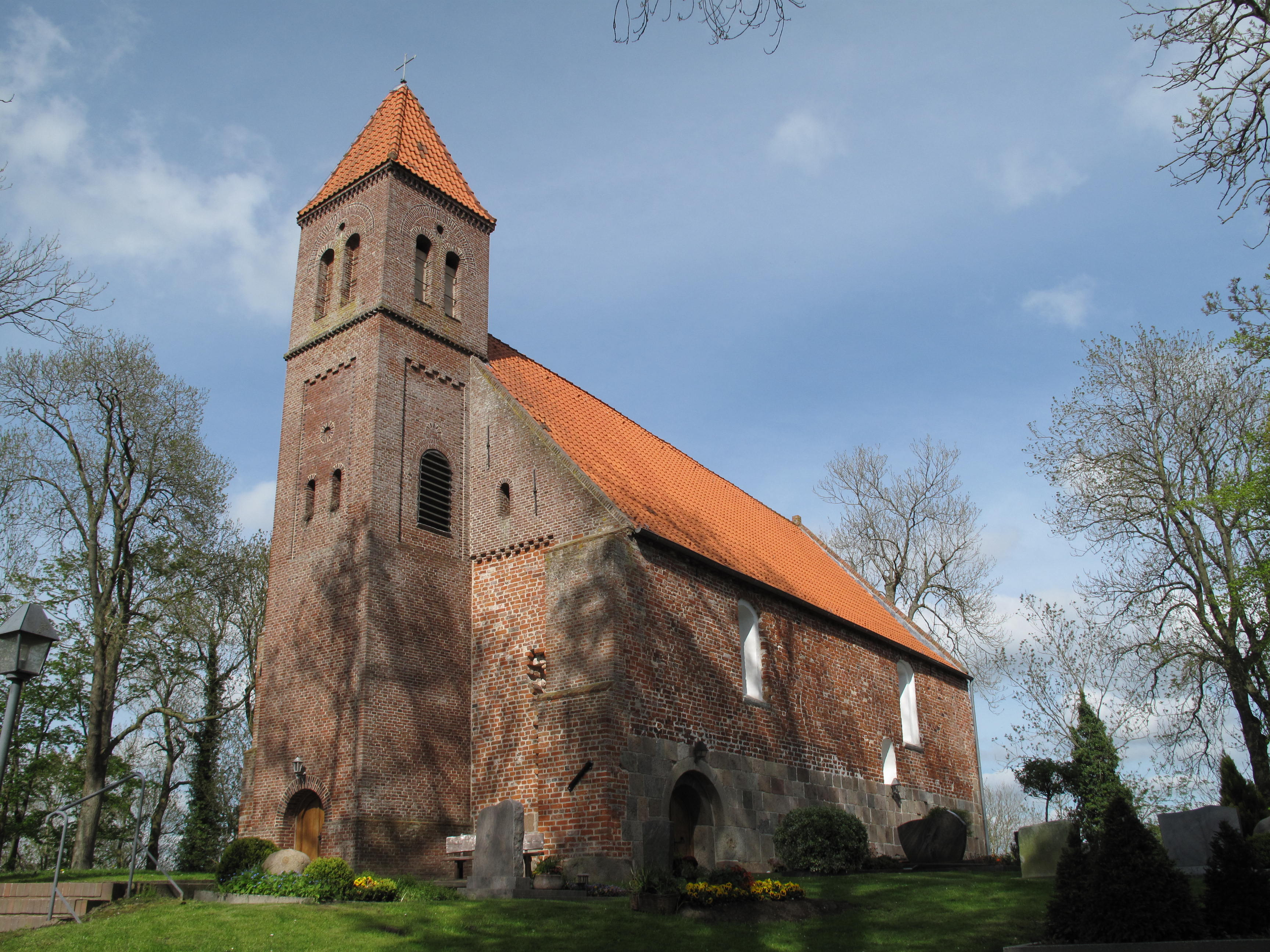 Sandel, church